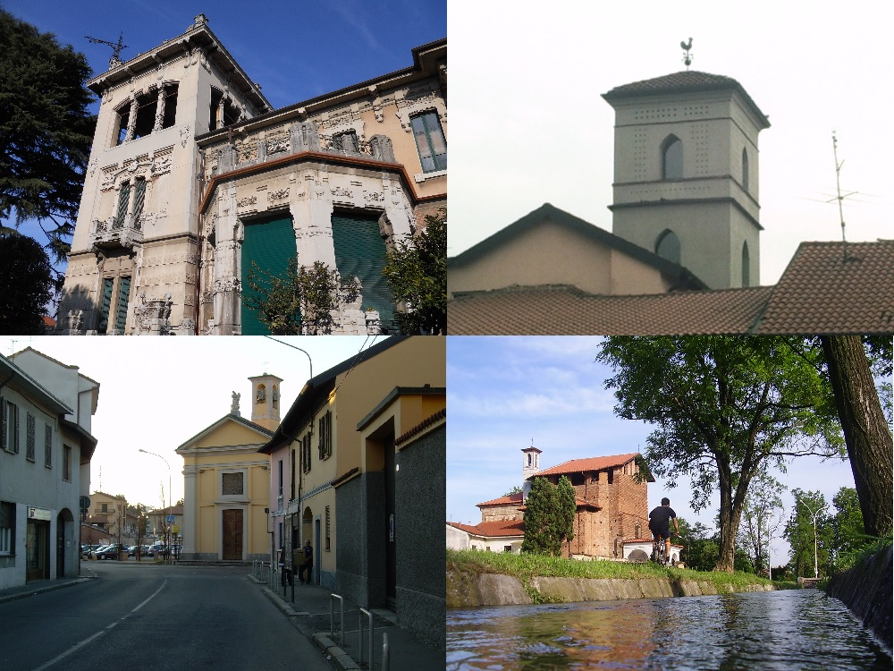 A photo collage for Parabiago